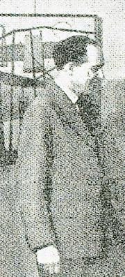 Lojze Spacal (1907-2000), Slovene painter